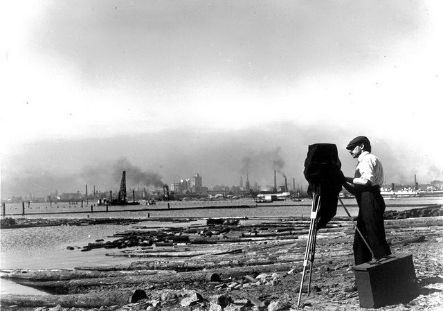 Original caption: "Arthur Beales with photography equipment set up near Ship Channel, looking northwest to city skyline, October 2, 1914, by Beales' assistant. Toronto Port Authority Archives, PC 1/1/135."